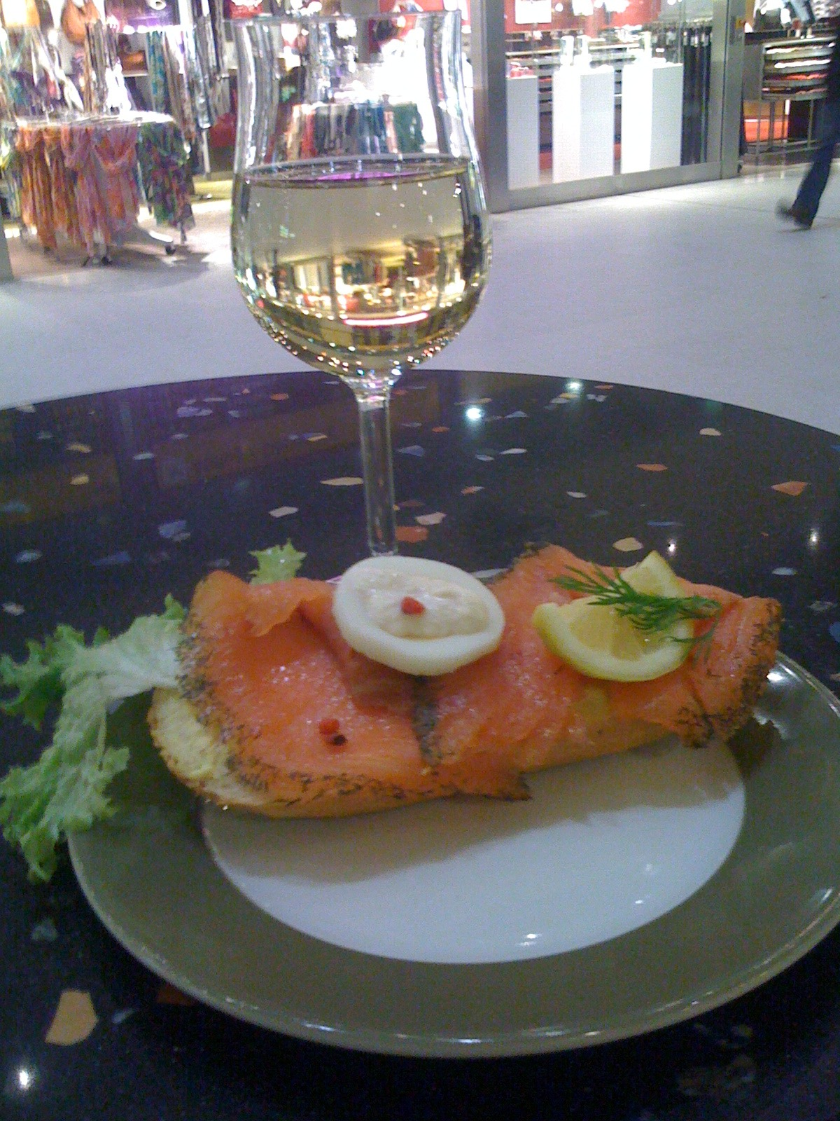 Food and wine pairing with the French wine Sancerre, made from Sauvignon blanc, from the Loire Valley.